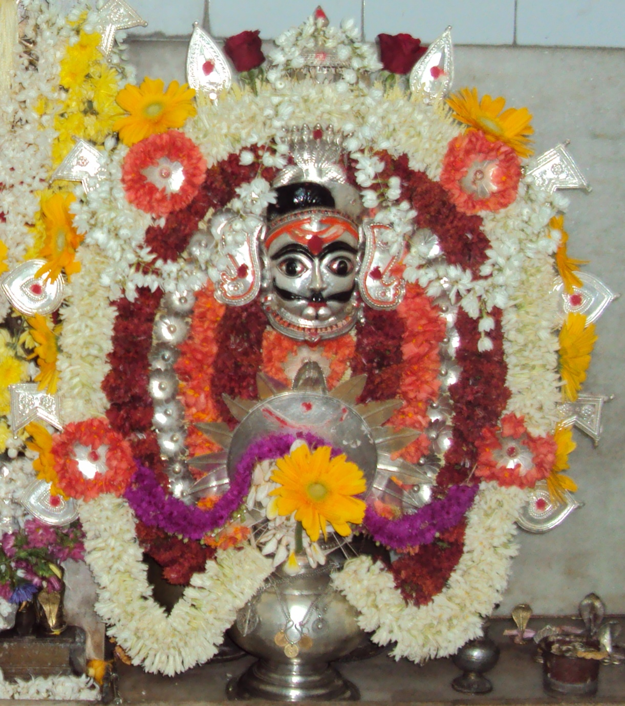 Shri Hirebeera Kalasha